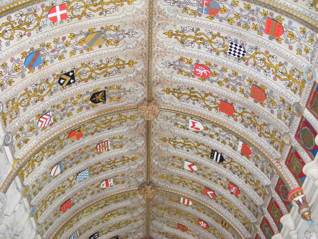 Ceiling of The Sidney Chapel, near to Penshurst, Kent, Great Britain. Church of St John the Baptist, Penshurst. The chapel dates from 1820, when it was rebuilt by J B Rebecca, and is the third chapel on the site.